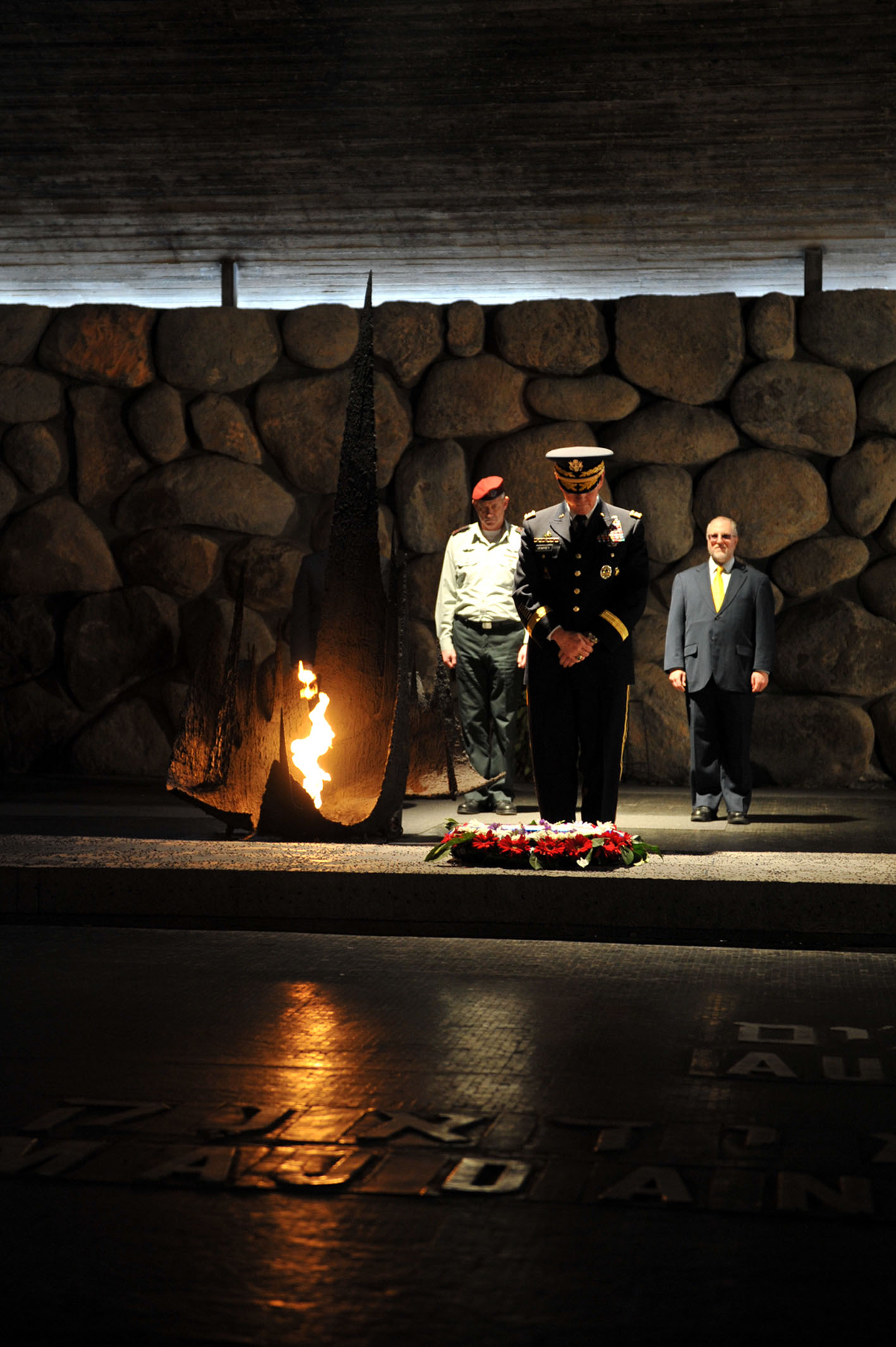 January 20, 2012 The Chairman of the Joint Chiefs of Staff of the United States Military, General (****) Martin E. Dempsey, arrived yesterday, for a short visit in Israel as part of a visit to the region. During his visit, General Dempsey held a private meeting with Lt. Gen. Gantz, as well as a briefing with senior commanders of the General Staff, focusing on cooperation between the two militaries, as well as mutual security challenges. General Dempsey was greeted at the IDF General Headquarters in Camp Rabin (Kirya), by an IDF honor guard. Pictured above is General Dempsey's visit at the Yad VaShem Holocaust Memorial Museum, where he paid respect to the memory of Holocaust victims. For more information: Four-Star General Martin E. Dempsey to Visit Israel Photos by Sgt. Ori Shifrin, IDF Spokesperson Unit. The Israel Defense Forces Facebook The Israel Defense Forces blog Follow us on Twitter